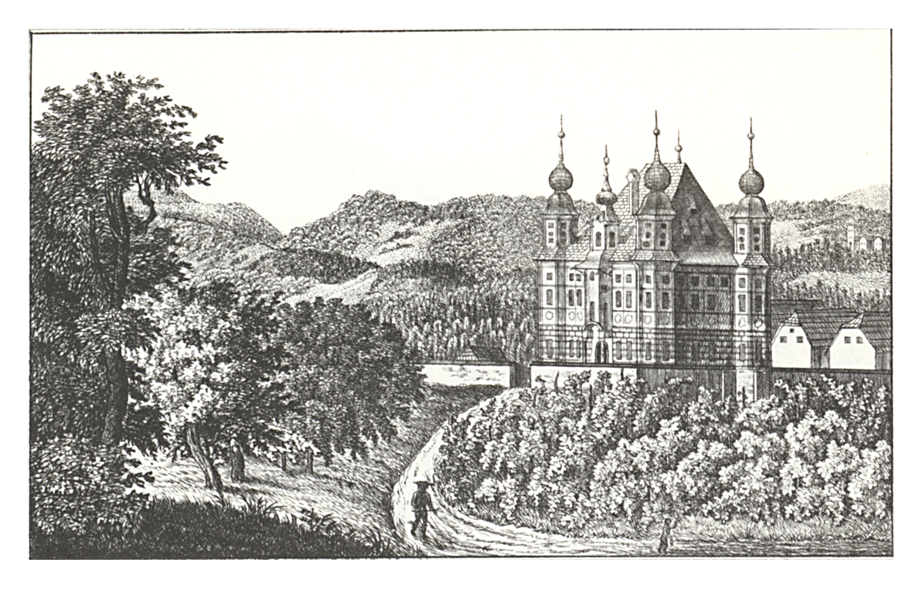 Schloss Altenburg der Schelenbaurischen Erben nunmehr dem Herrn Baron Moskon gehörig. J. F. Kaiser - lithographirte Ansichten der Steyermärkischen Städte, Märkte und Schlösser Graz, 1825 Joseph Franz Kaiser (1786–1859) Alternative names J. F. KaiserDescriptionAustrian printer and editorDate of birth/death 11 March 1786 19 September 1859Location of birth/death Graz (Styria) GrazAuthority control : Q1499963 VIAF: 30629353 ISNI: 0000 0000 3083 0153 LCCN: n87141671 GND: 129880159 NLP: A24960305 WorldCat creator QS:P170,Q1499963 Scanprojekt Community Projektbudget 2012 This scan or this PDF-file was created within the GLAM-project Bookscanning, supported by Wikimedia Germany and Wikimedia Austria as a part of the community-project to capture books, documents and pictures which are not eligible to copyright or for which the copyright has expired. This document describes or depicts an object which is located in Austria today. Send requests for uncompressed scans to Hubertl. This work is in the public domain in its country of origin and other countries and areas where the copyright term is the author's life plus 100 years or less. You must also include a United States public domain tag to indicate why this work is in the public domain in the United States. This file has been identified as being free of known restrictions under copyright law, including all related and neighboring rights.